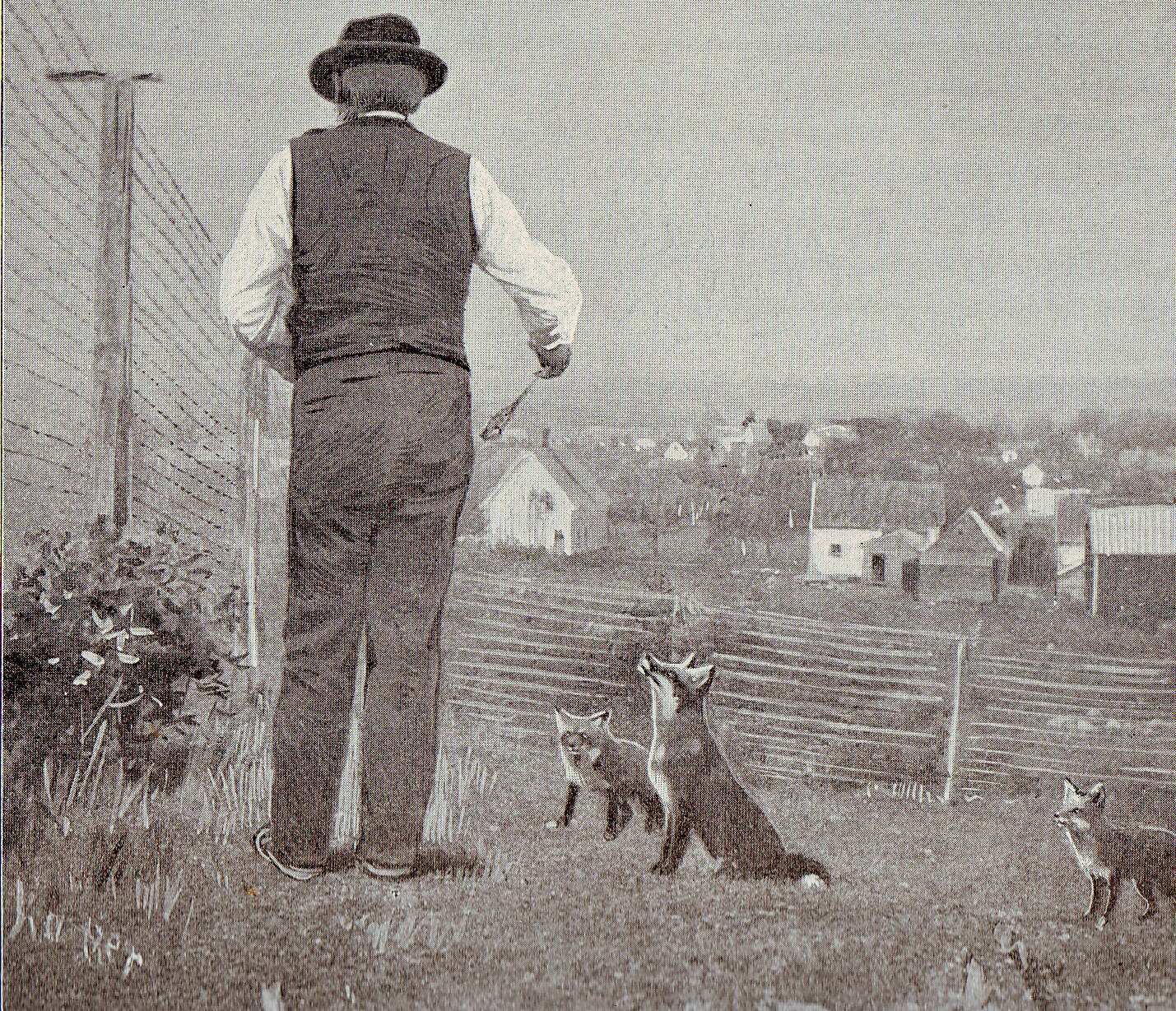 Fox farm of Norton und Robinson, Foxcroft (Maine)